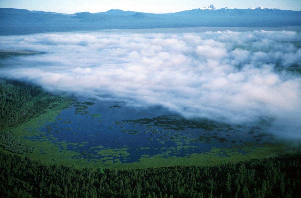 Lower Klamath National Wildlife Refuge in Oregon